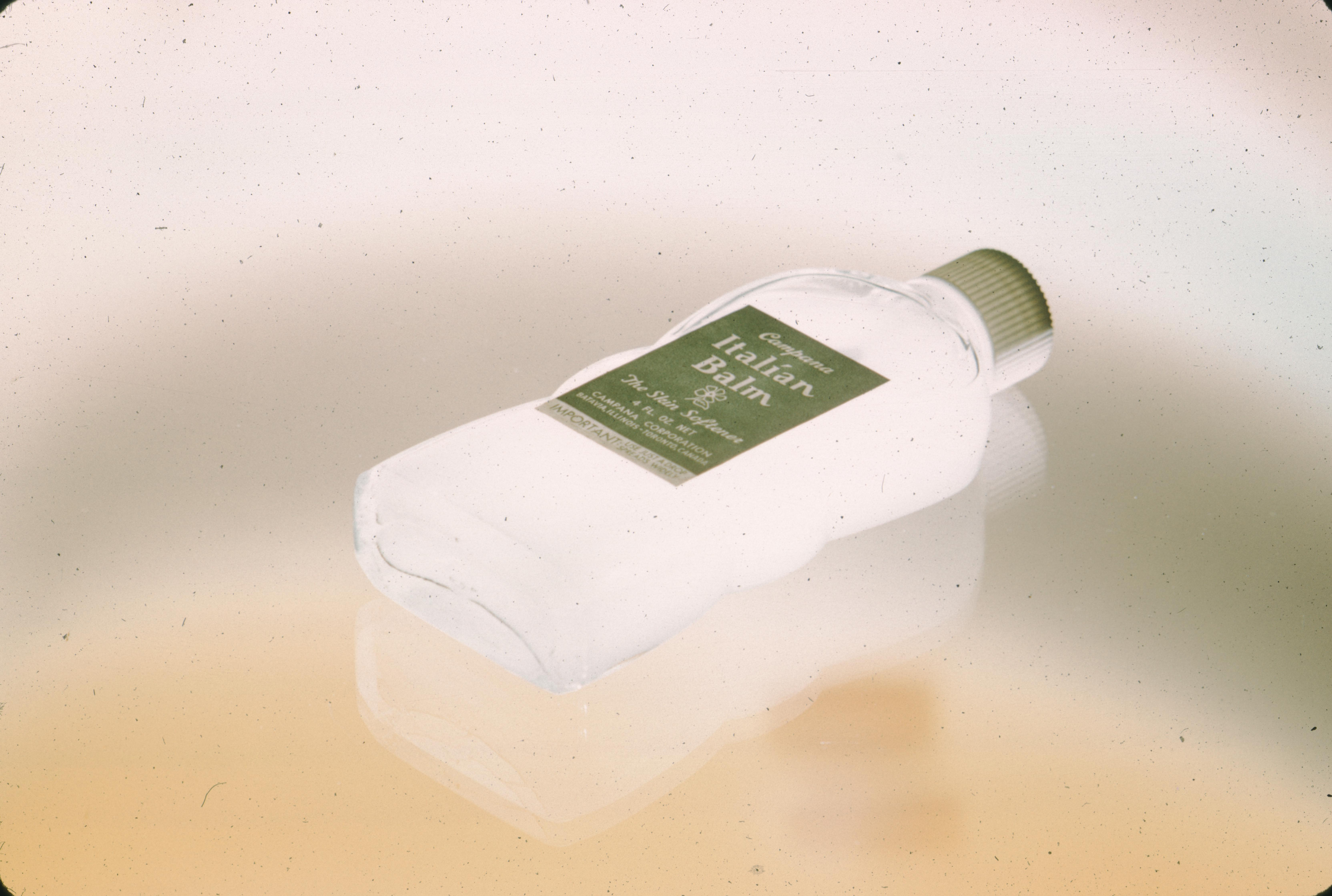 CyberViewX v5.16.55 Model Code=58 F/W Version=1.21 Photography by Victor Albert Grigas (1919-2017)